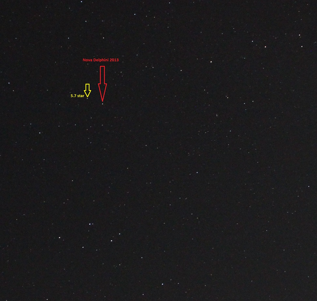 Nova Delphini 2013 (or PNV J20233073+2046041).